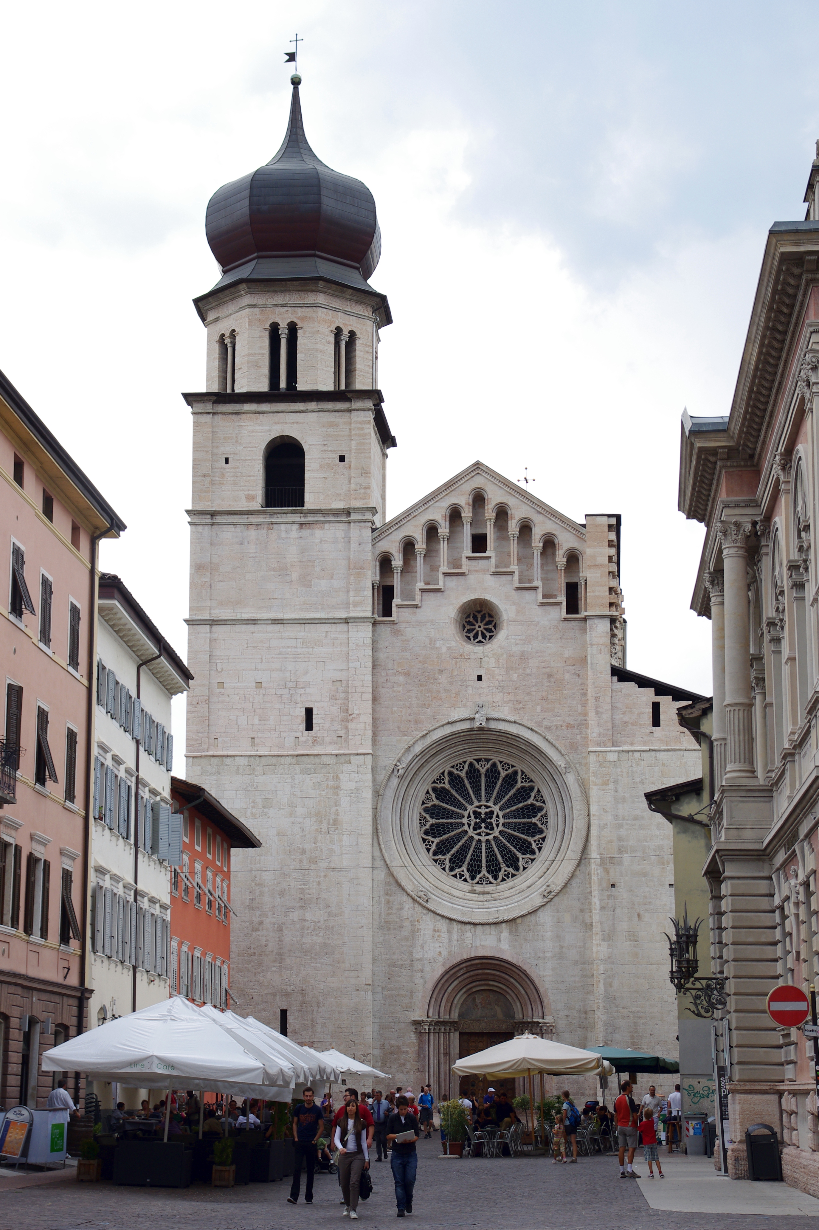 Cathedral of Saint Vigilius in Trento